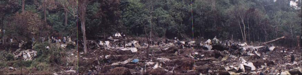 Panoramic view of the crash of Garuda Indonesia Flight 152, which killed 234 people